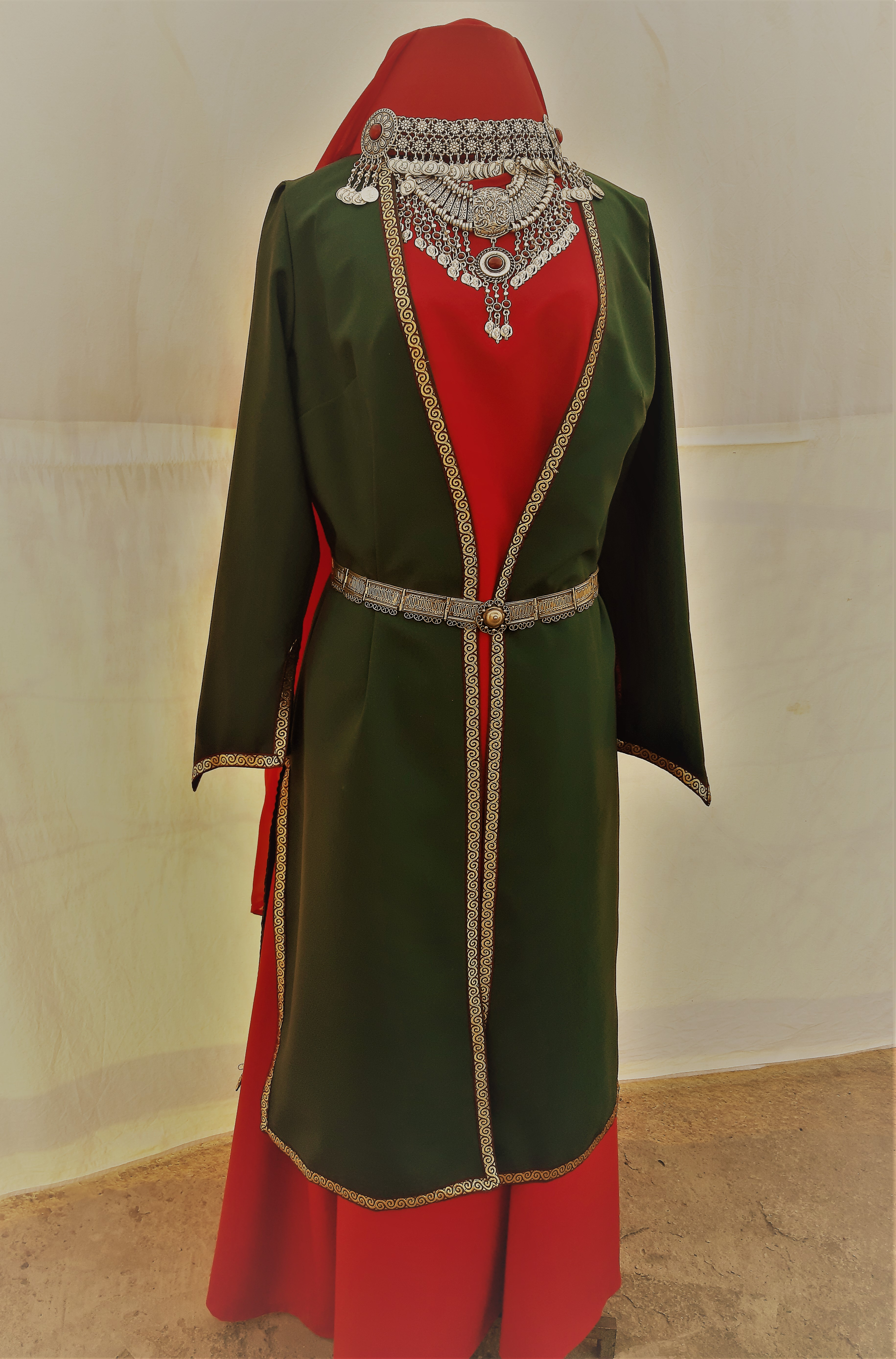 Traditional clothes